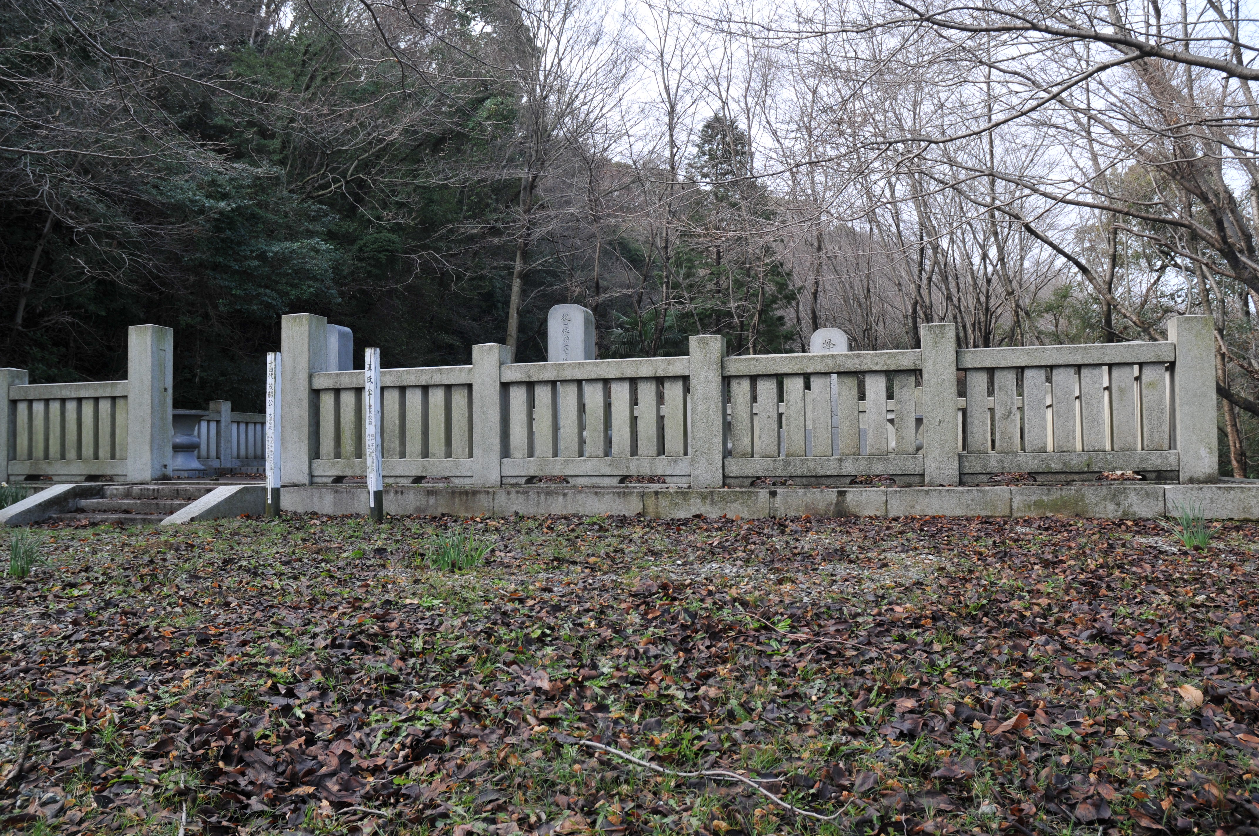 graves of the 14the feudal load Hachisuka Mochiaki couple and Hachisuka Masauji